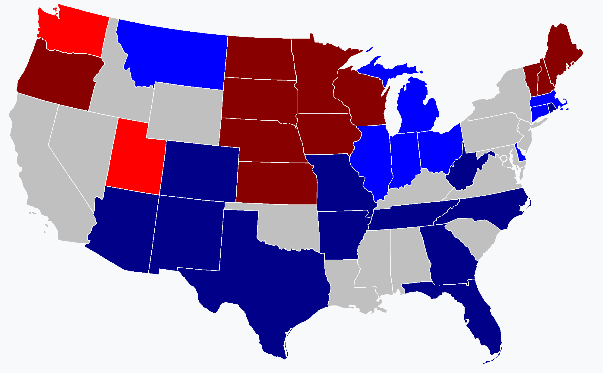 A map showing the results of the 1948 United States Gubernatorial elections